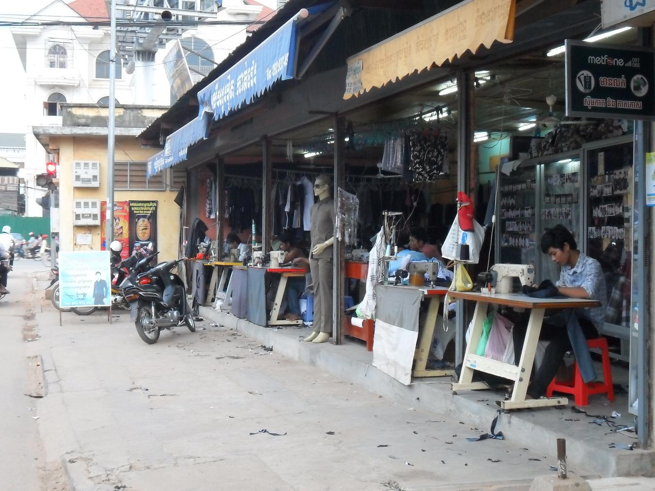 Dressmakers along the street, Siem Reap, Cambodia